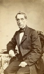 Malthe Conrad Lottrup (1815-1870). Købmand og brygger. Daguerreotypi ca. 1840. Århus Kommunes Biblioteker. Lokalhistorisk Samling